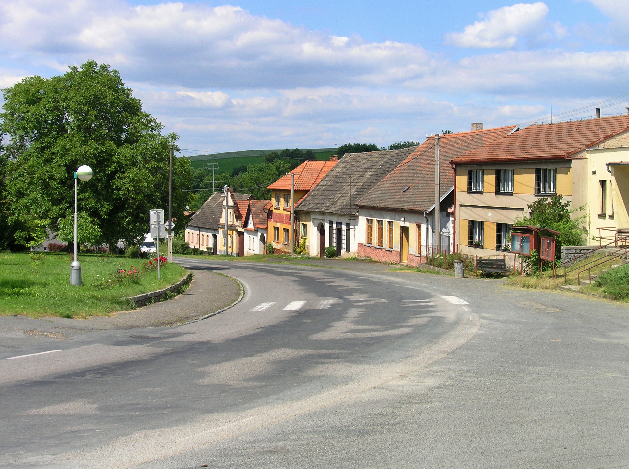 Main square in Křivosoudov, Czech Republic